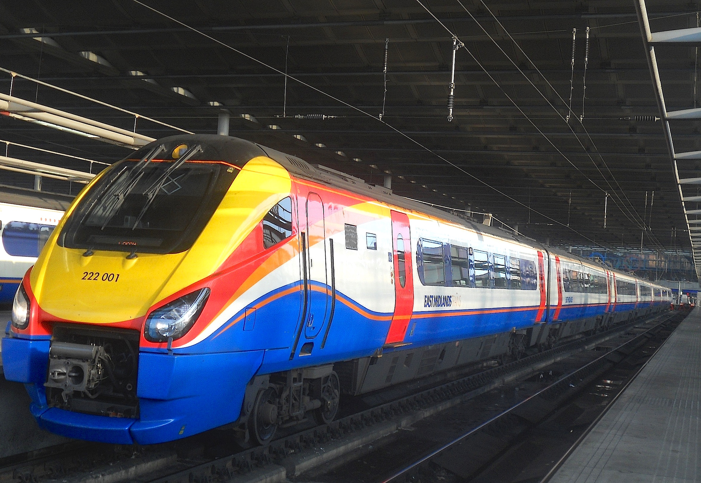 East Midlands Trains Class 222 No. 222001 at London St Pancras